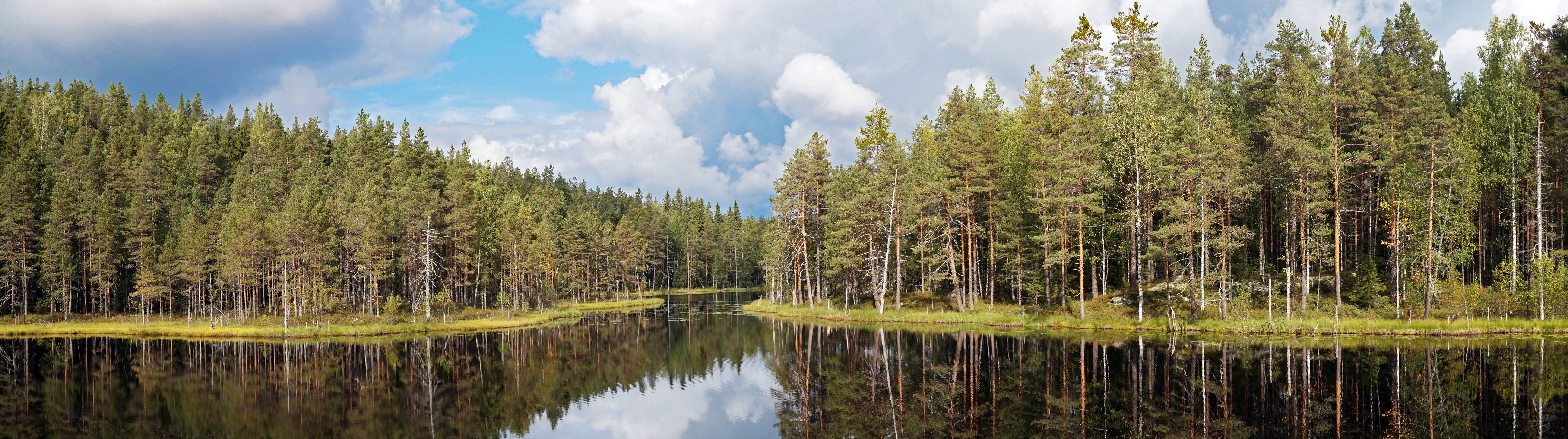 The lake Vahterjärvi in Isojärvi National Park, Finland.